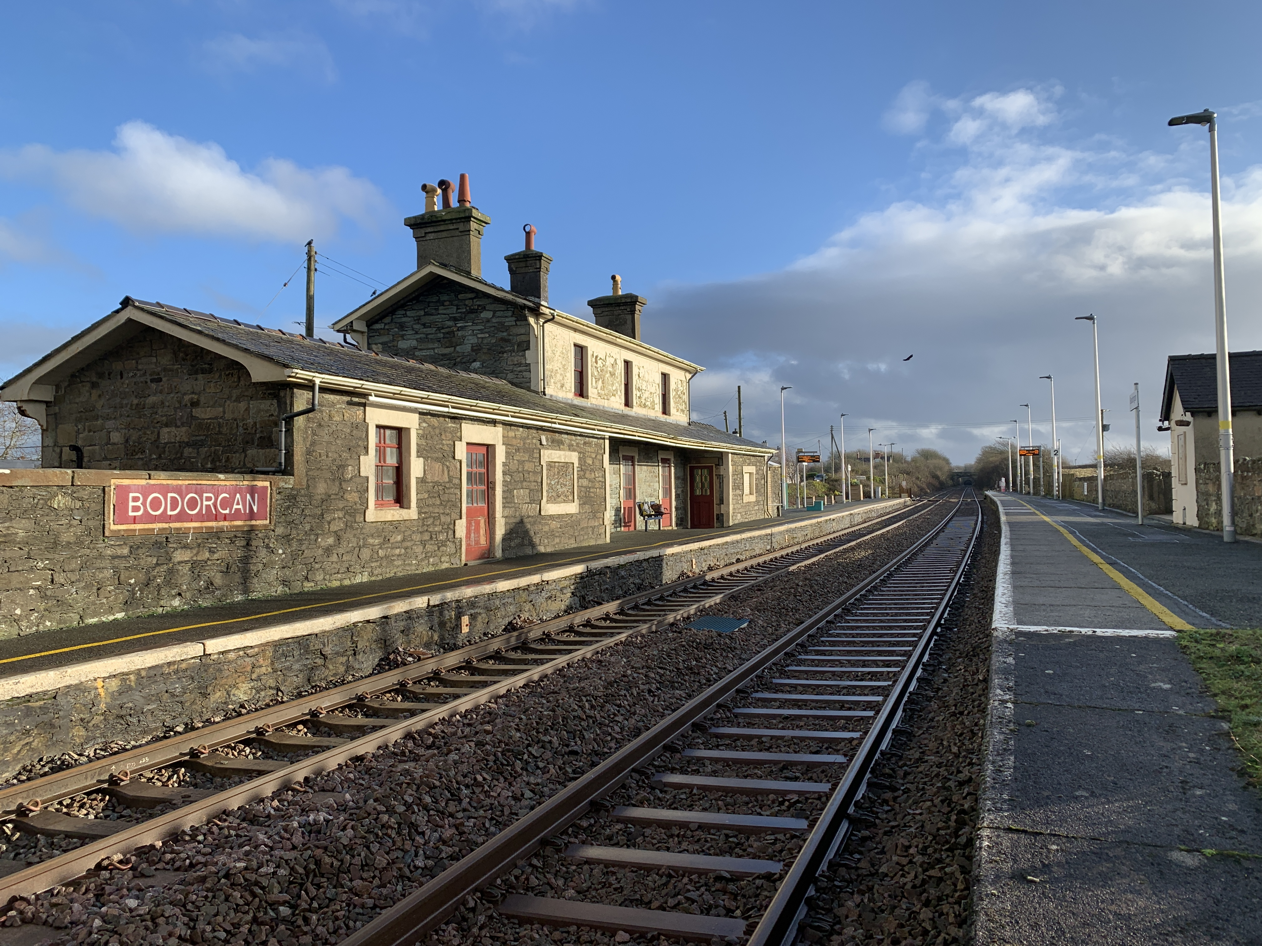 Taken in December 2019